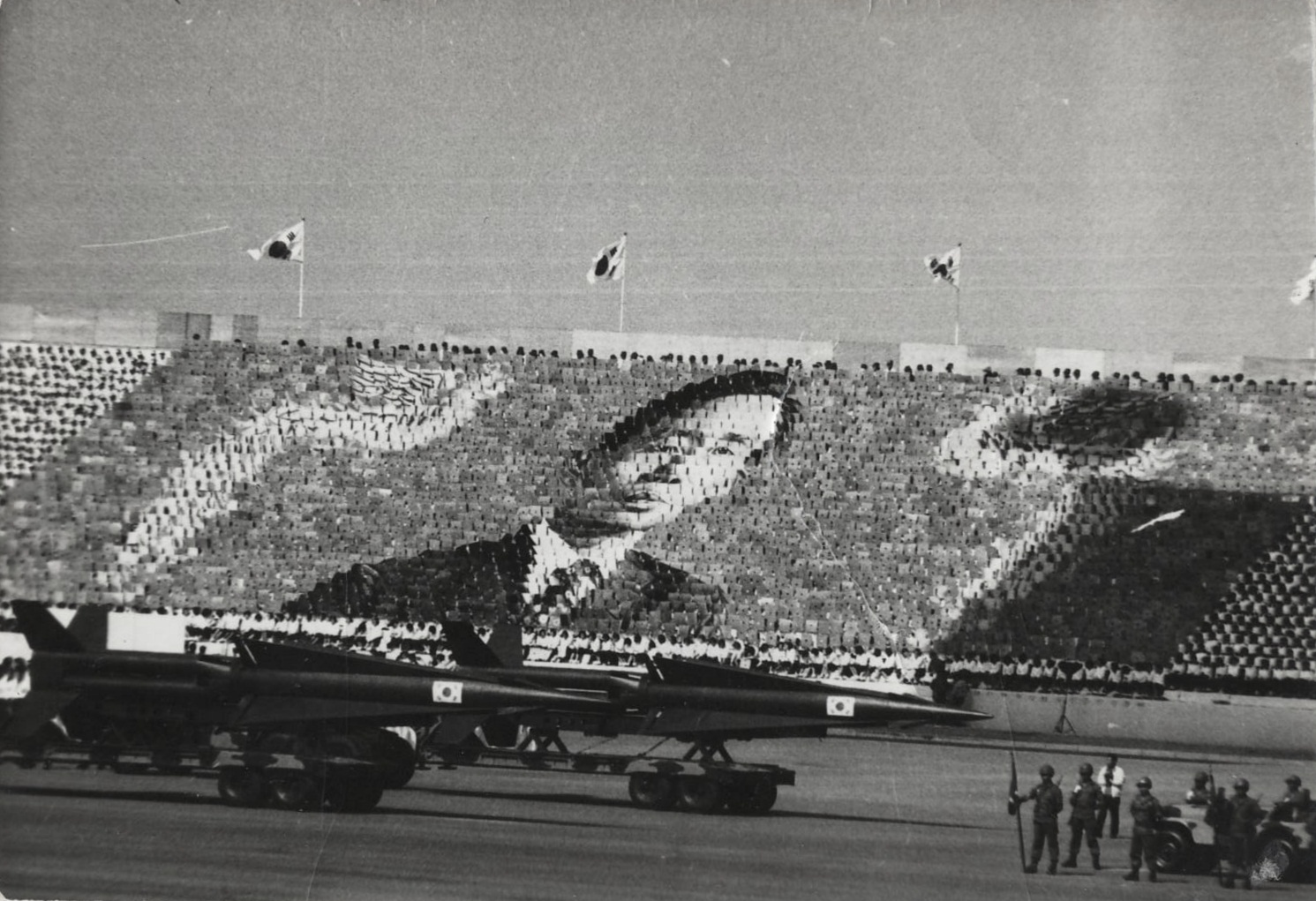 South Korean Army parade at Armed Forces Day in 1973. A huge Card stunt which is honoring Park Chung-hee is being performed.Unknown